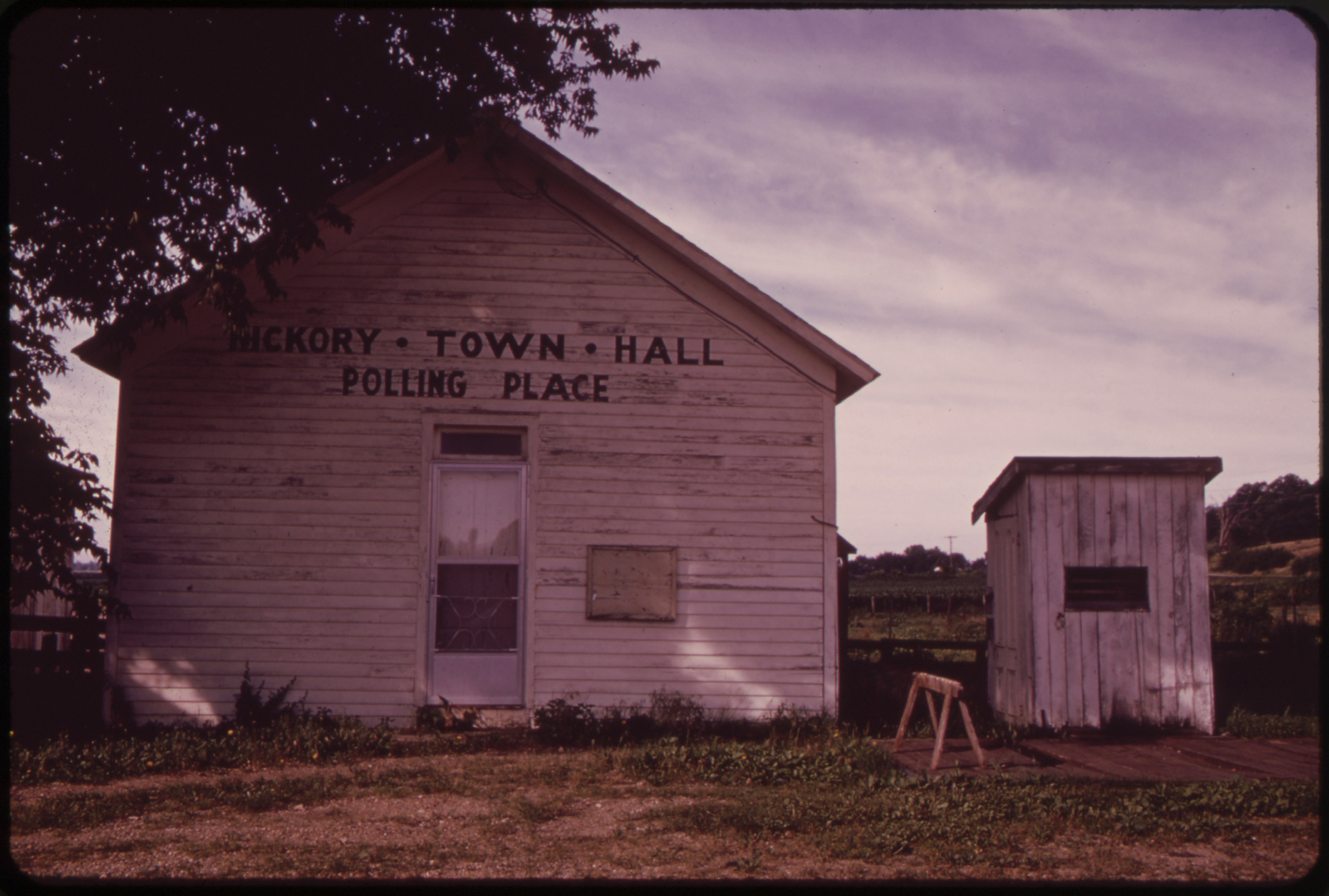 Hickory Township hall, Sheldons Grove, Illinois; the main building, at 40°9′58.4″N 90°17′38.3″W / 40.166222°N 90.293972°W, still exists next to the current township hall as of 2016.